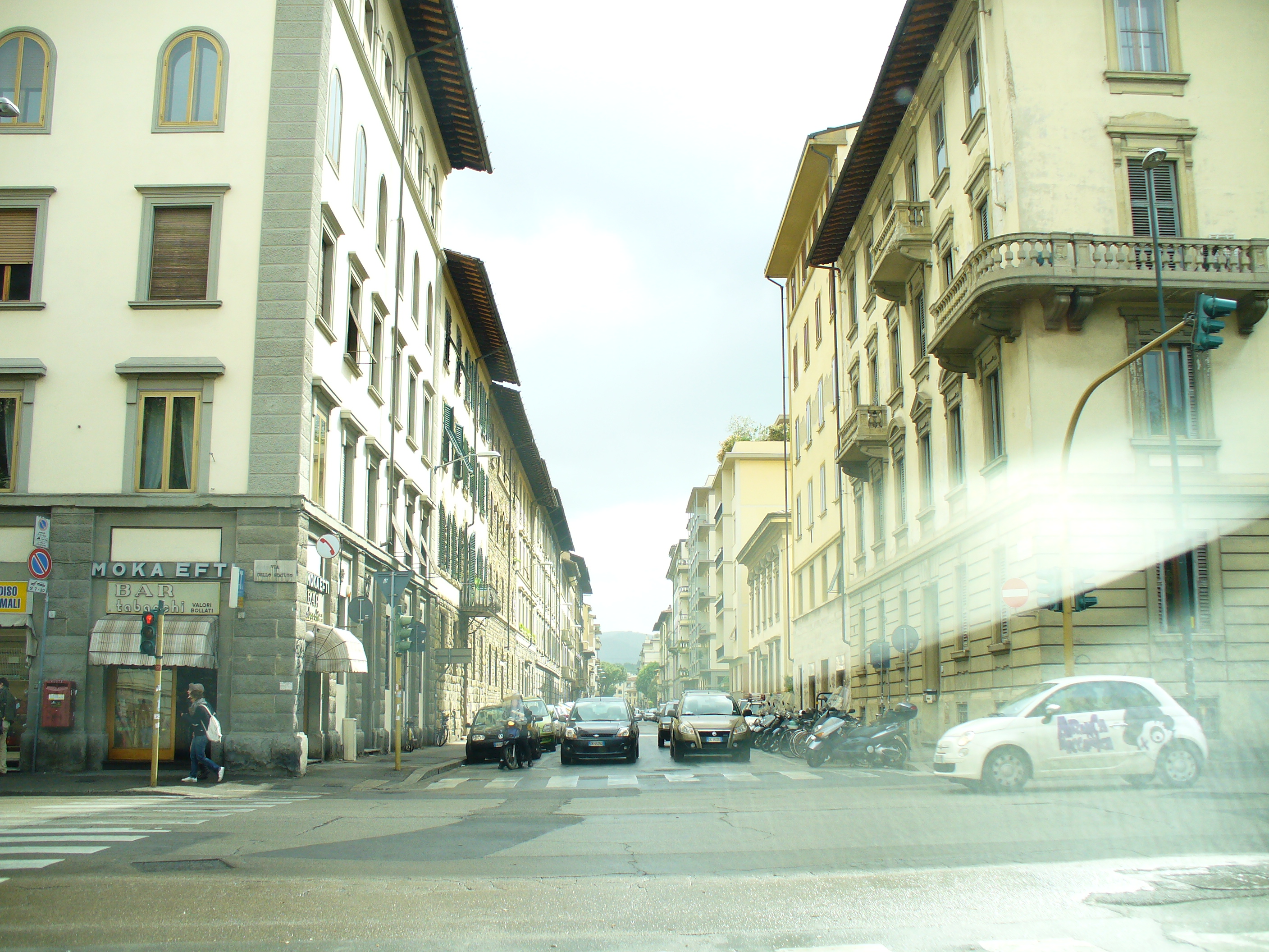 via puccinotti florence